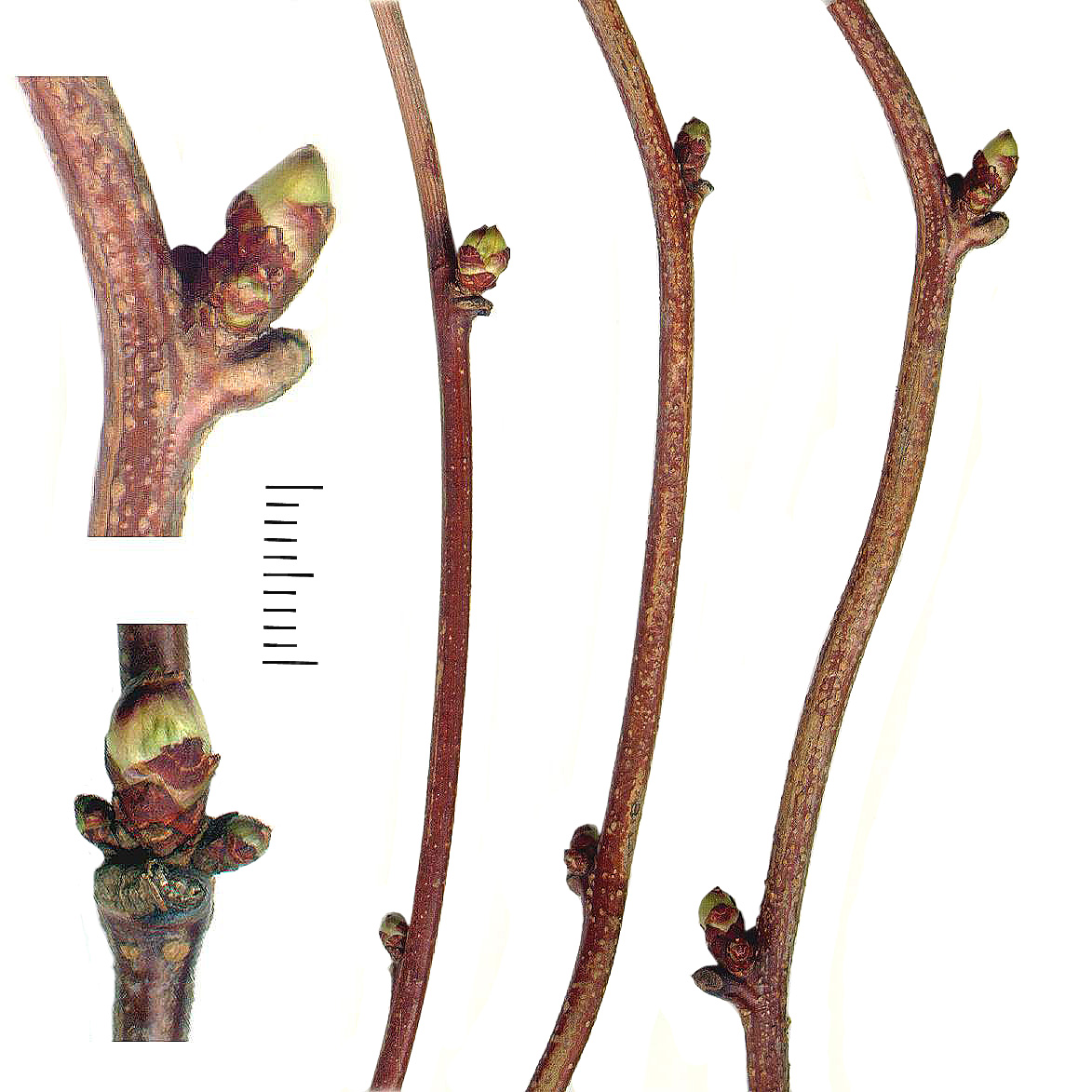 Aqebia quinata shoots and buds